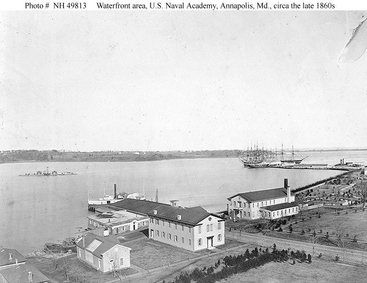 US Naval Academy (USNA)grounds in the late 1860s with barrack/school ships USS Santee & USS Constitution.